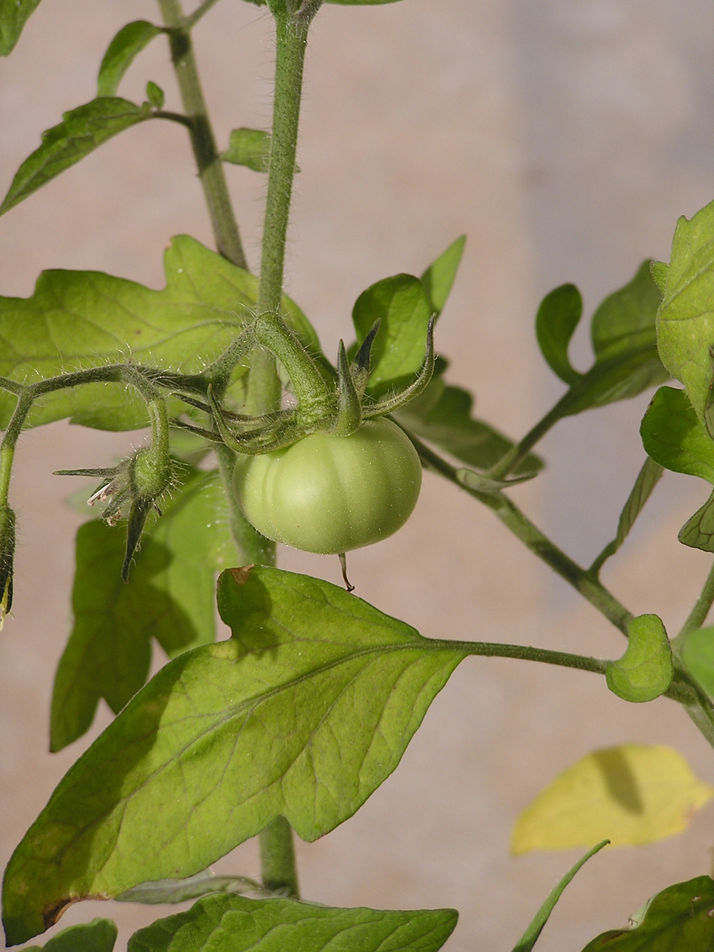 One of my homegrown (unripe at the time) tomatoes.